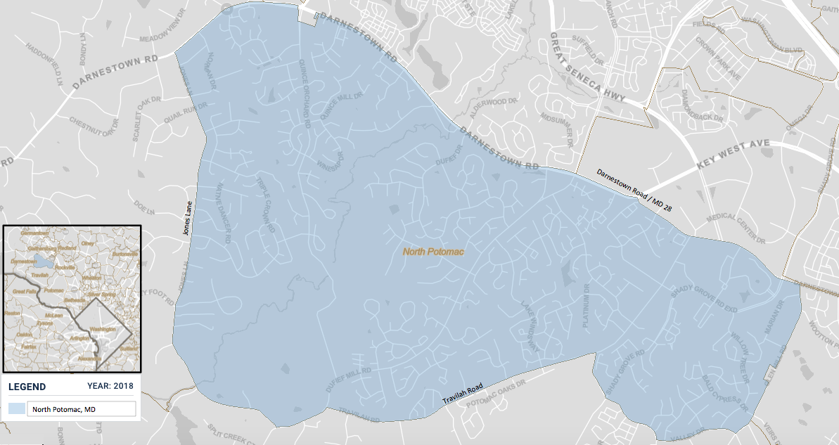 This is a map of North Potomac, Maryland.